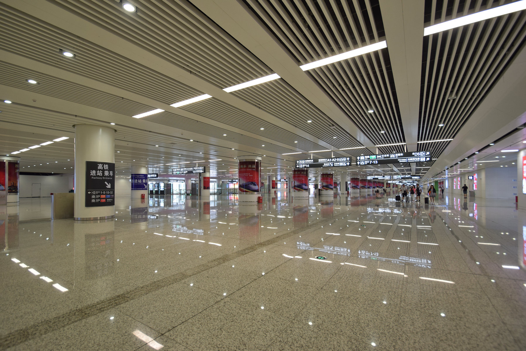 Transfer Concourse, Futian Railway Station